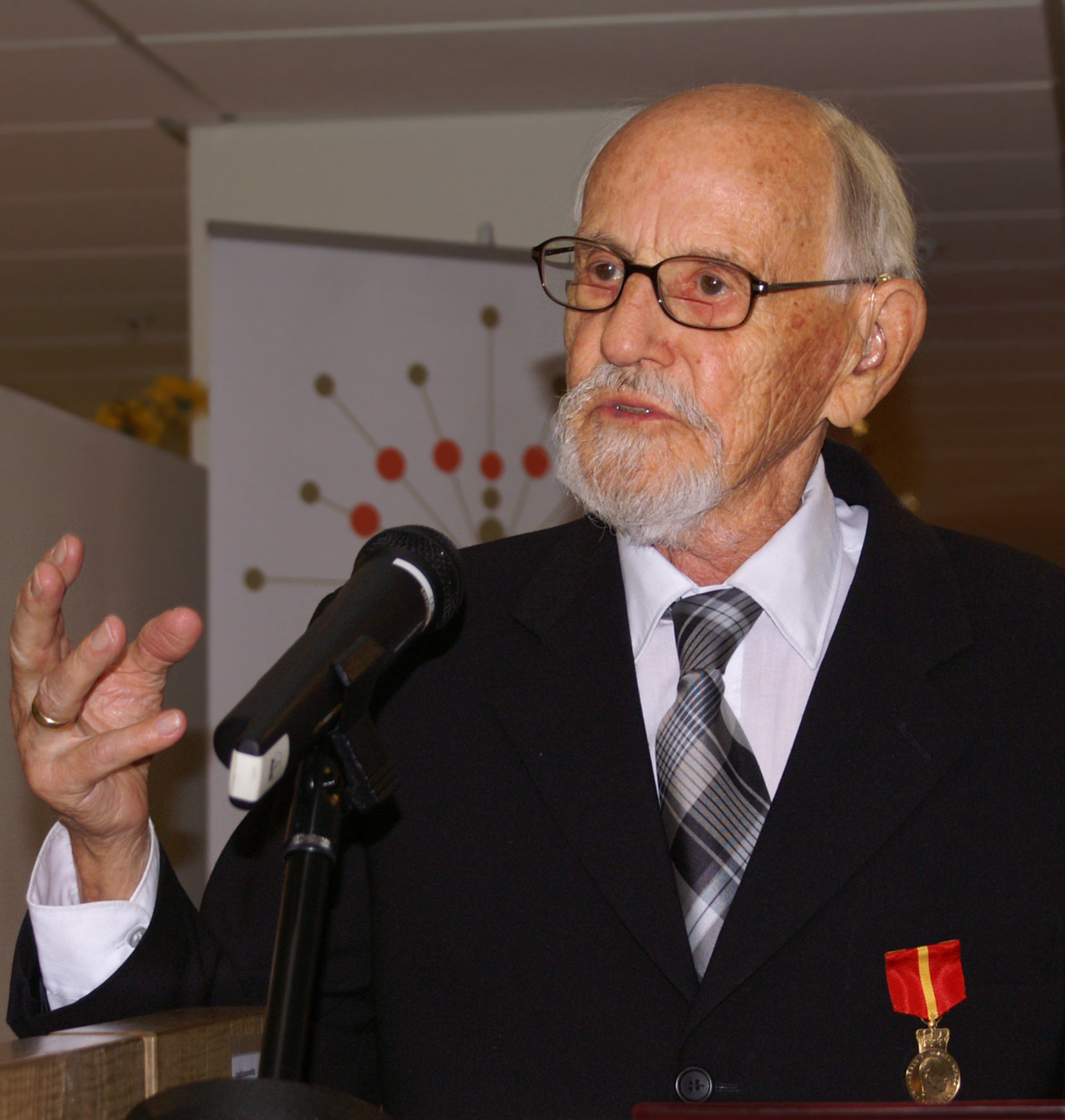 Edin Løvås, Norwegian preacher